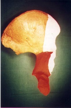 Columns of acetabulum seen in Iliac view